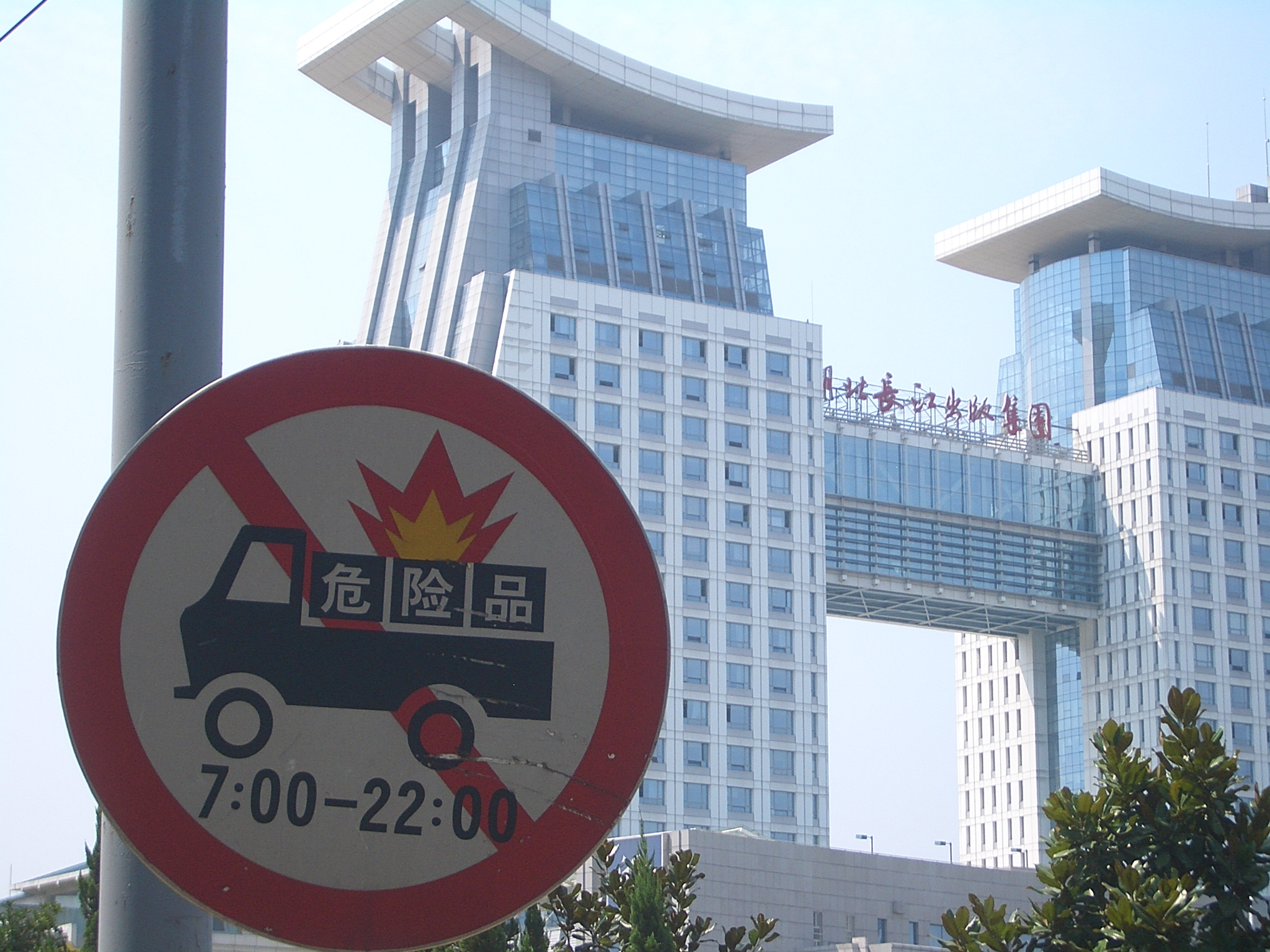 Changjiang Chongwen Plaza in Wuhan (in Xiongchu Lu, south of Wuchang Train Station) houses a publishing house (Hubei Changjiang Chuban Jituan) and a huge bookstore (Chongwen Shu Cheng). The road signs in the foreground prohibits dangerous cargoes from 7 am to 10 pm.